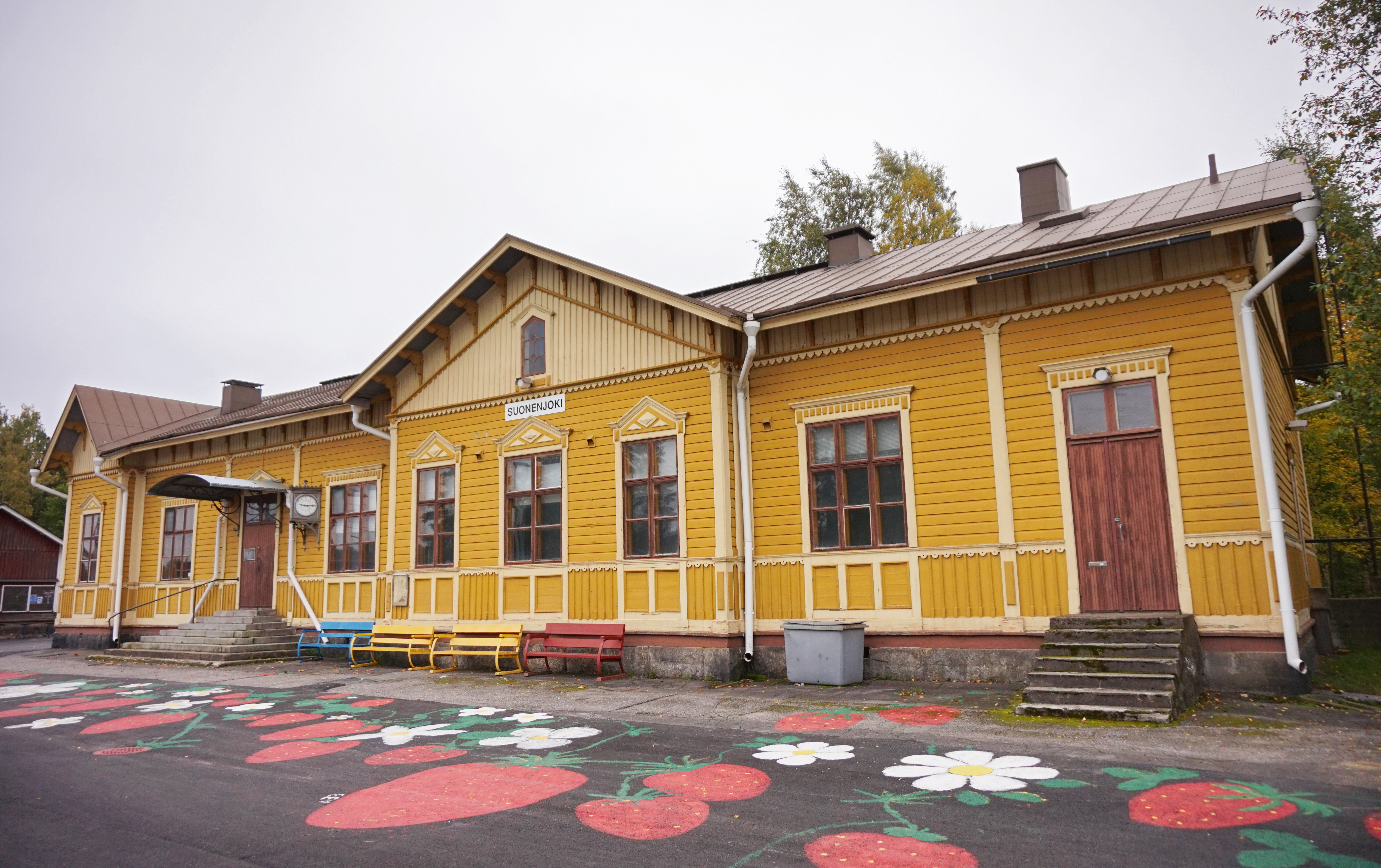 Suonenjoki railway station, western face.